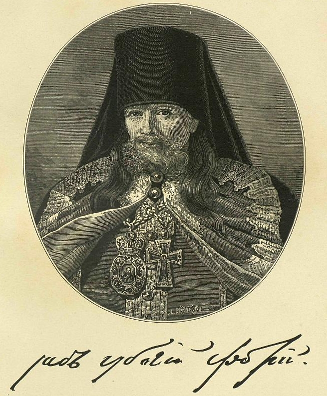 Photiy